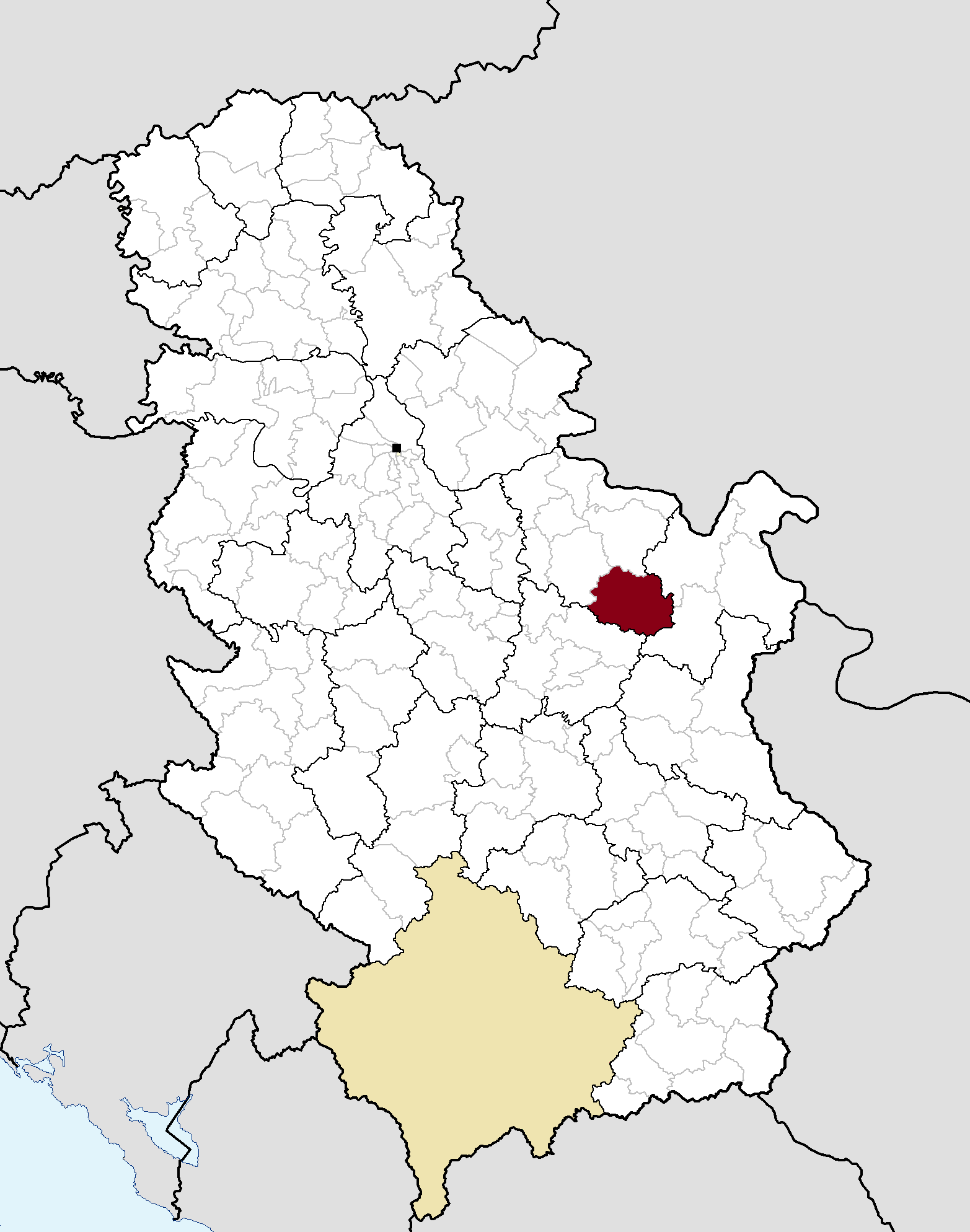 Municipal location in Serbia